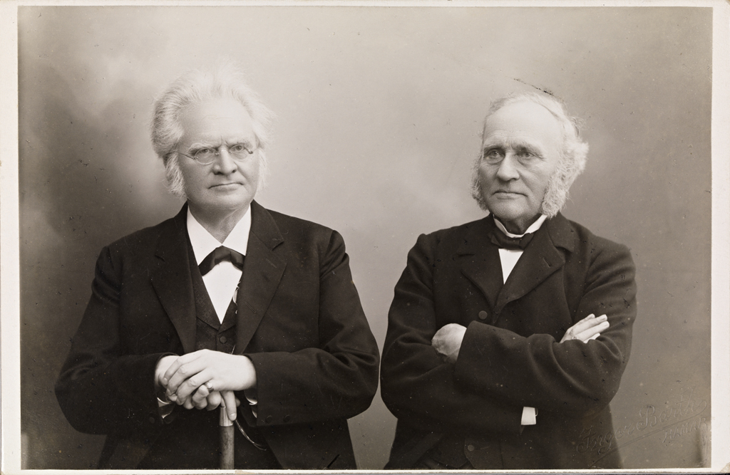 Tittel / Title: Bjørnstjerne Bjørnson sammen med Olaus Arvesen, 1903. Dato / Date: 1903 Fotograf / Photographer: Inger Barth (1858–1952) DescriptionNorwegian photographerDate of birth/death 21 August 1858 1952Authority control : Q58175575 KulturNav: f423b91e-4b2c-491a-8ae4-b59fff100ee5 creator QS:P170,Q58175575 Eier / Owner Institution: Nasjonalbiblioteket / National Library of Norway Lenke / Link: Bildesignatur / Image Number: no-nb_bldsa_BB0059